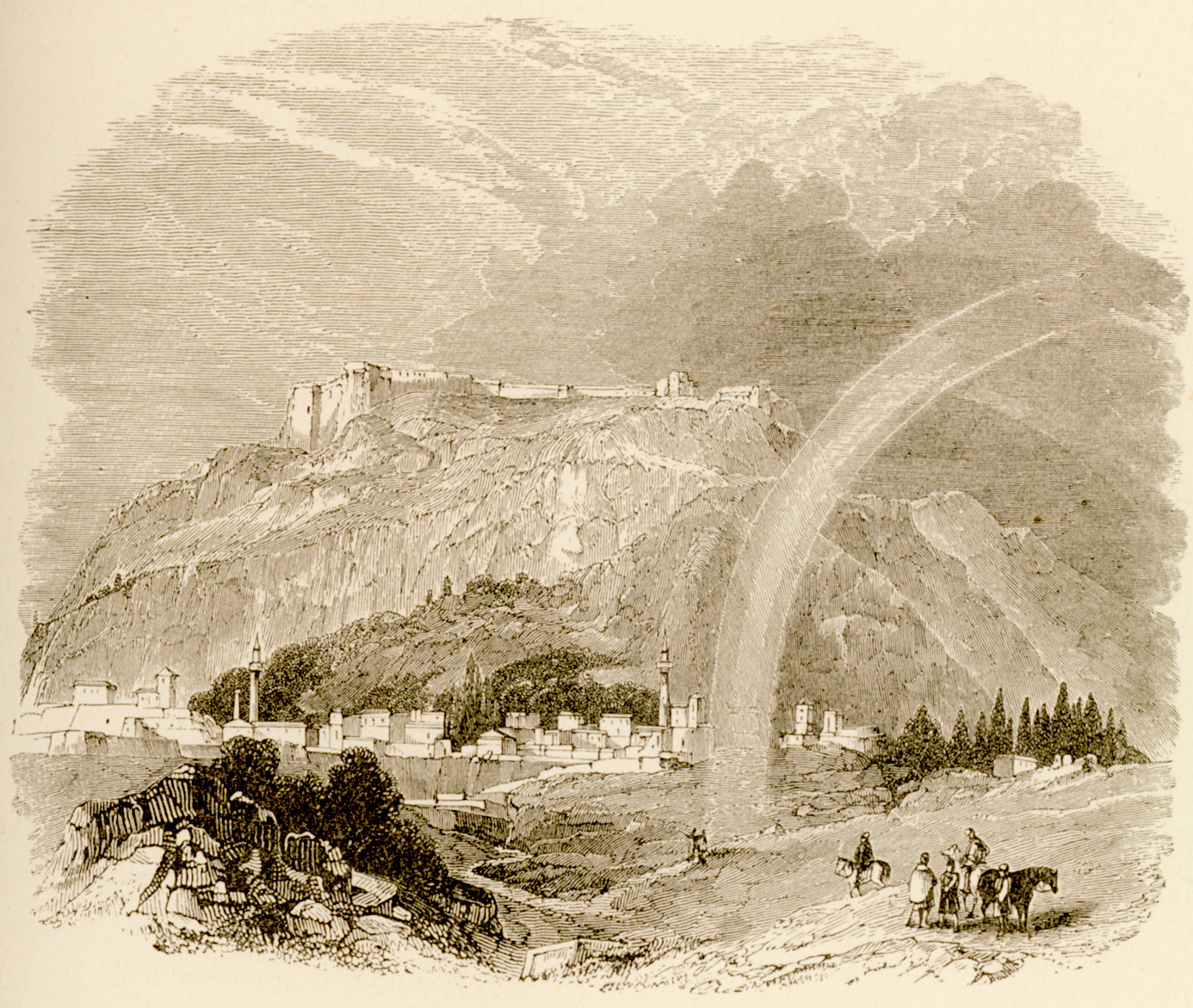 Christopher Wordsworth. Greece Pictorial, Descriptive, & Historical, and a History of the Characteristics of Greek Art, London, John Murray, 1882.